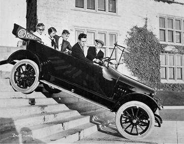 1918 Dort Automobile image. From the personal collection of auto ephemera (over 4,000 pieces spanning 1900-1975) owned by Stude62.